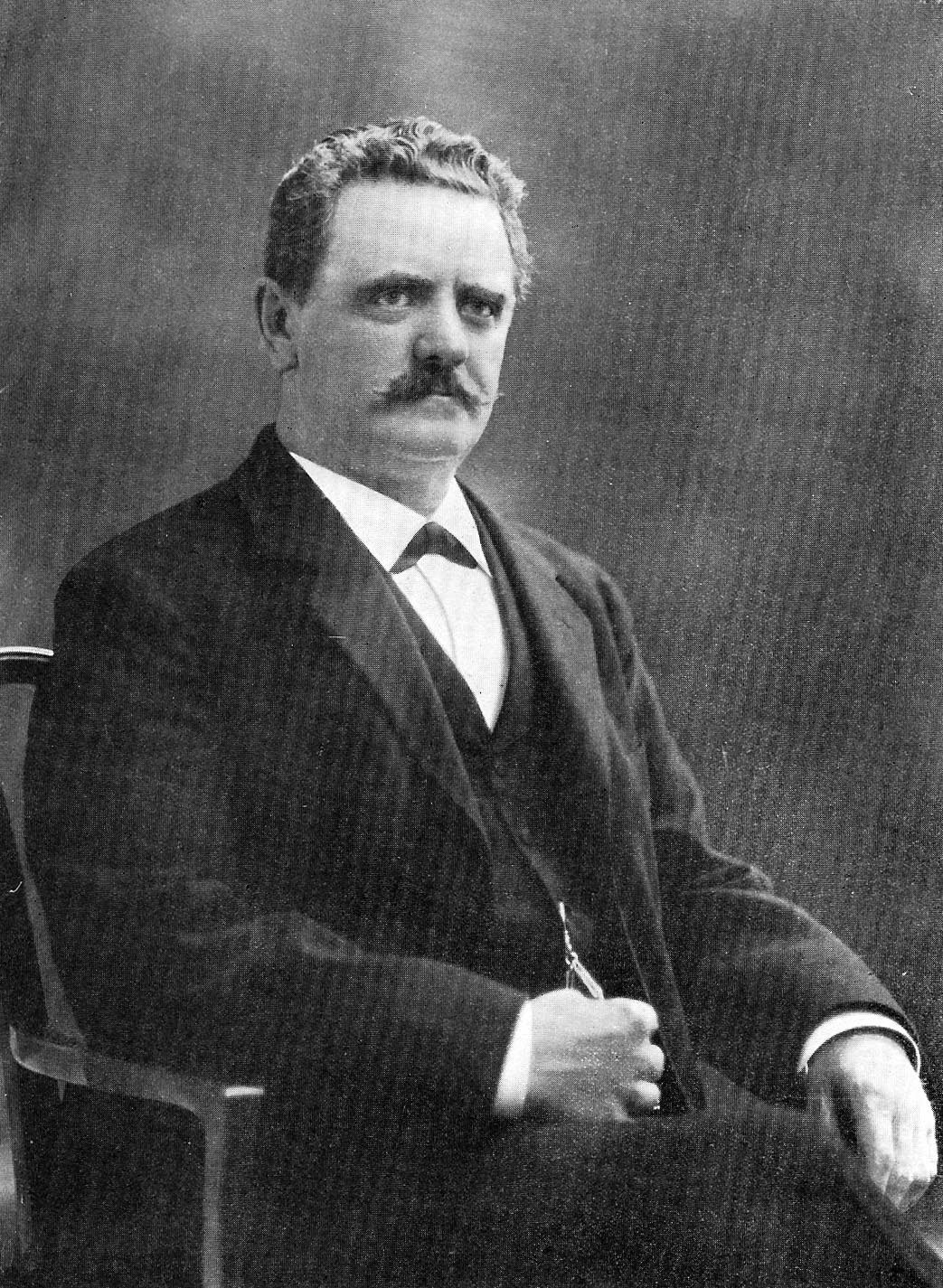 Swedish politician Melcher Lyckholm